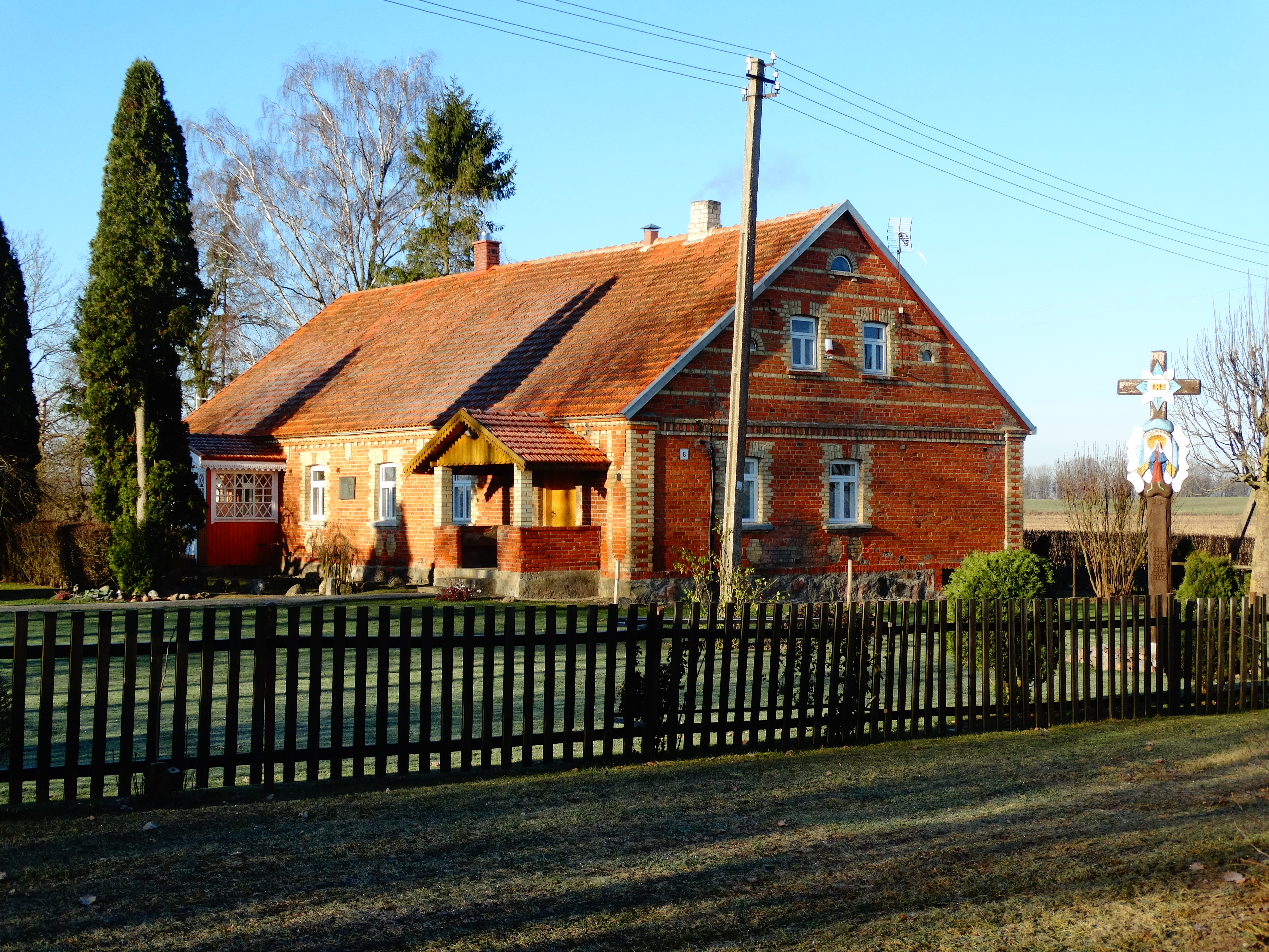 Kazys Boruta house, Kūlokai, Marijampolė Municipality, Lithuania